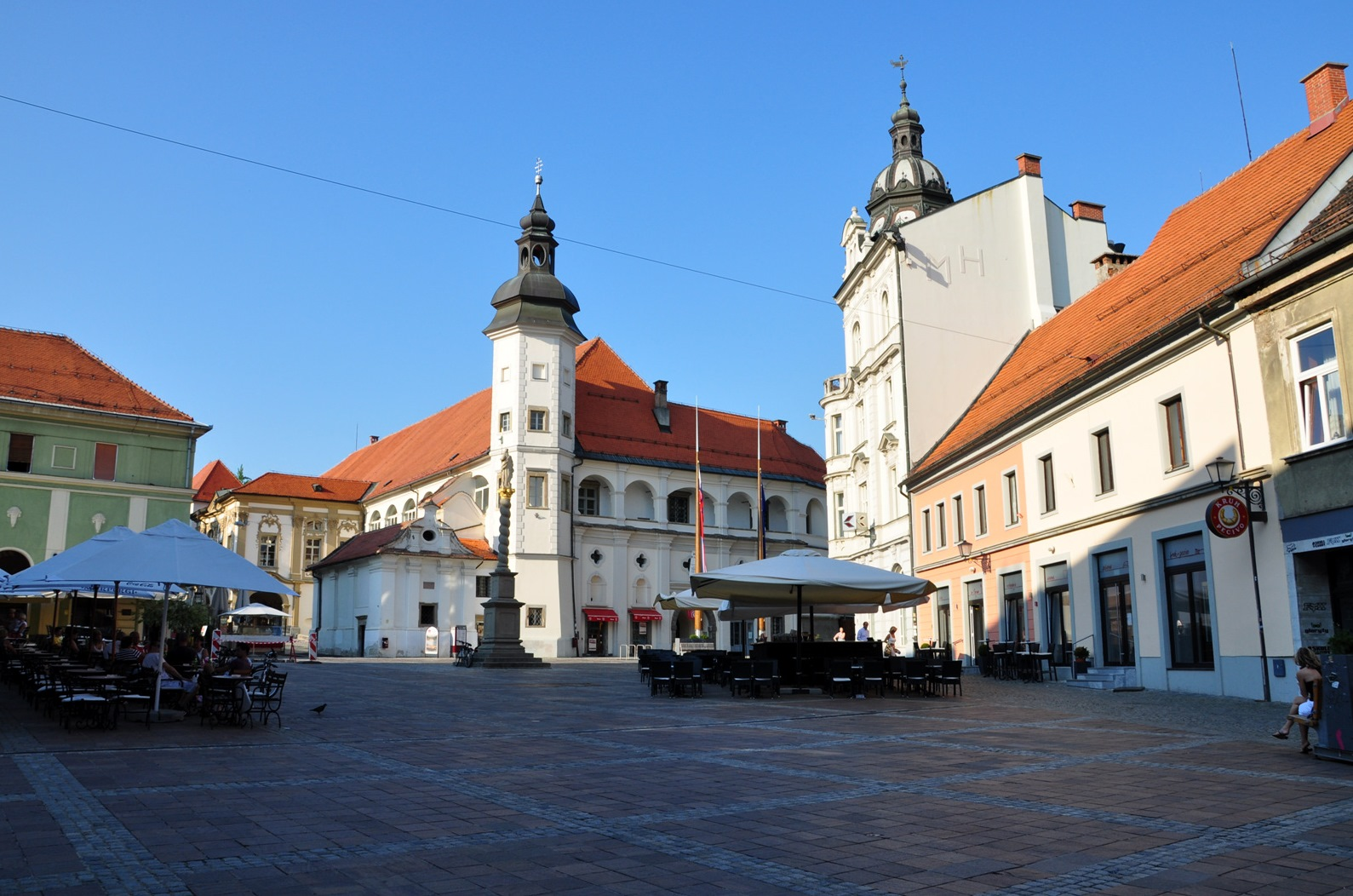 Maribor (69)